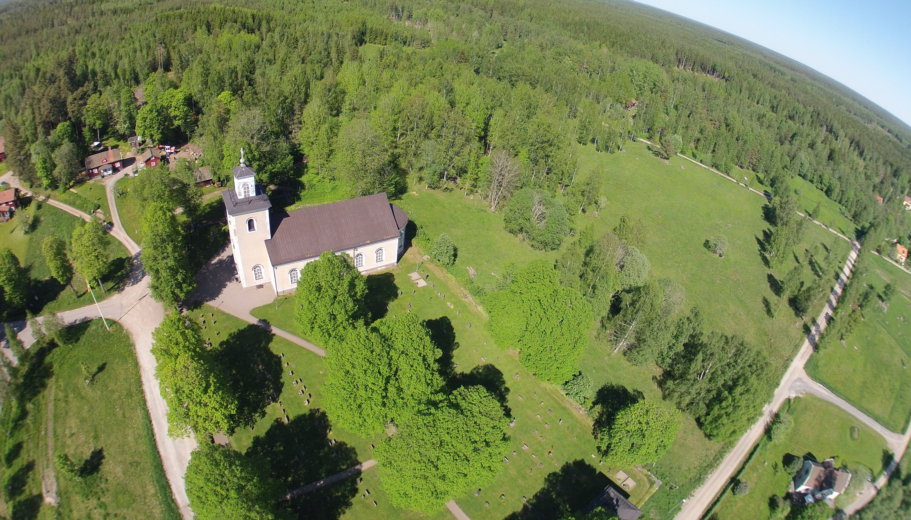 Church in Gunnilbo. Built in 1835.